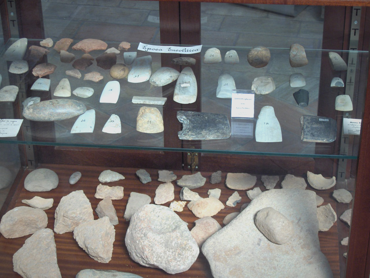 Neolithic finds; regional museum; Lagos, Portugal